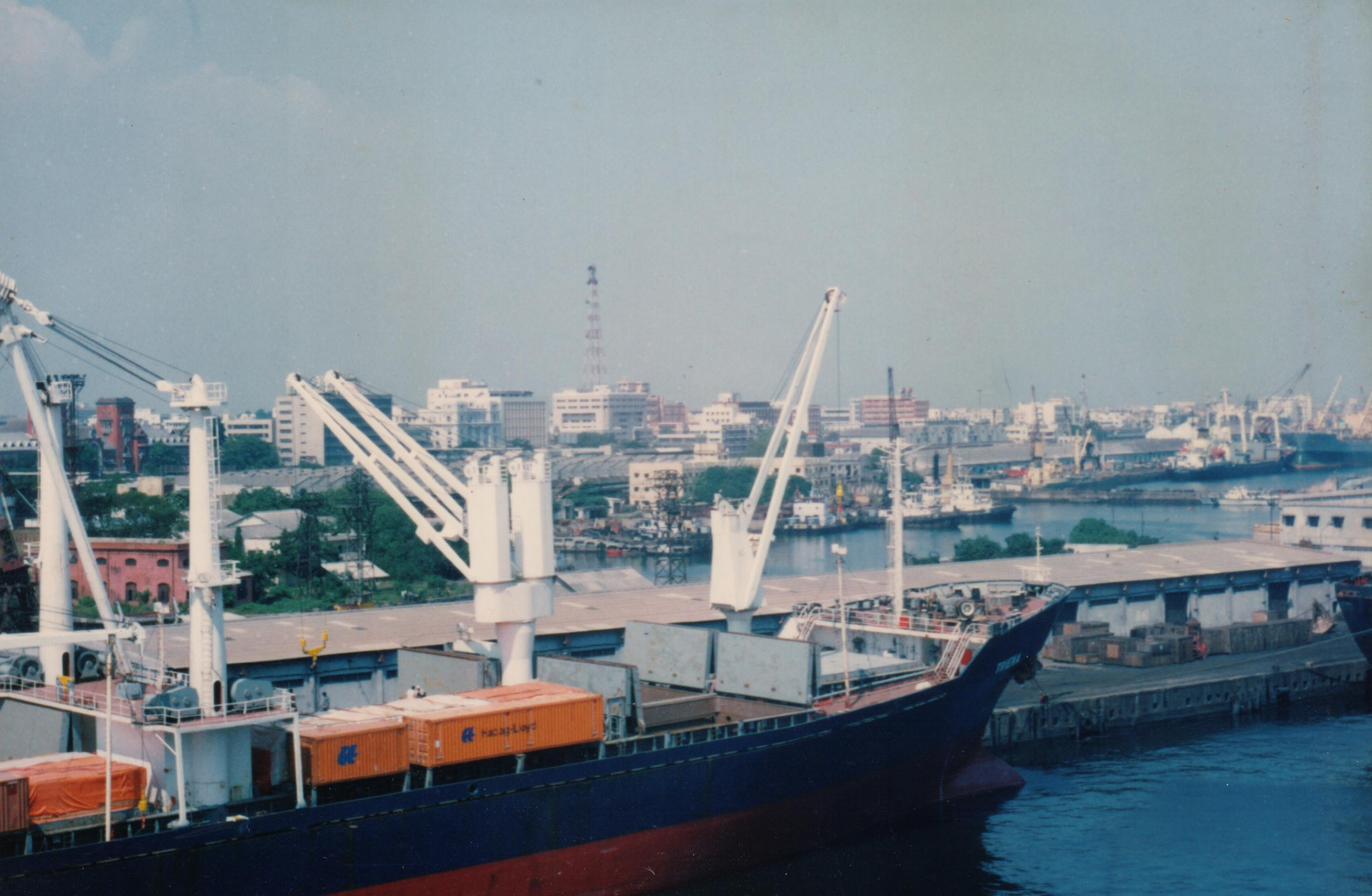 Madras Port, with buildings on Rajaji Road in background. Photo taken by IP Singh in late 1996 with Zenit camera, 50 mm lens @ 1/125 sec. exposure. Source: Taken by User:Ipsingh